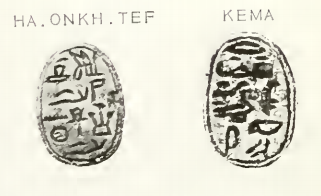 Picture of two scarabs of Ha-ankhef and Kema, parents of pharaohs Khasekhemre Neferhotep (I) and Khaneferre Sebekhotep (IV): "Royal sealer, divine father Ha-ankhef"; "Princess, royal daughter Kema". Reign of one of their sons, 13th dynasty, Middle Kingdom.